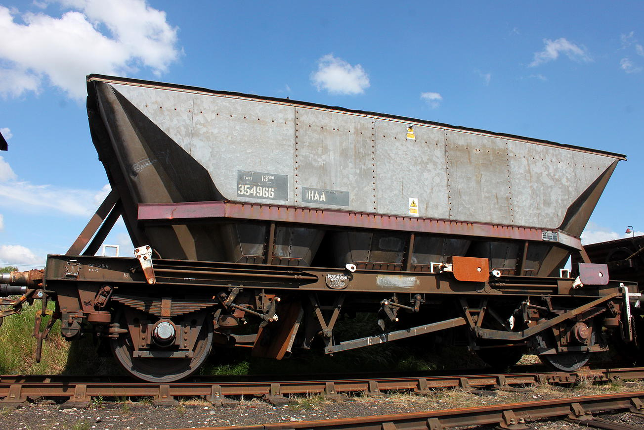 HAA 354966 at Barrow Hill, in the care of The National Wagon Preservation Group